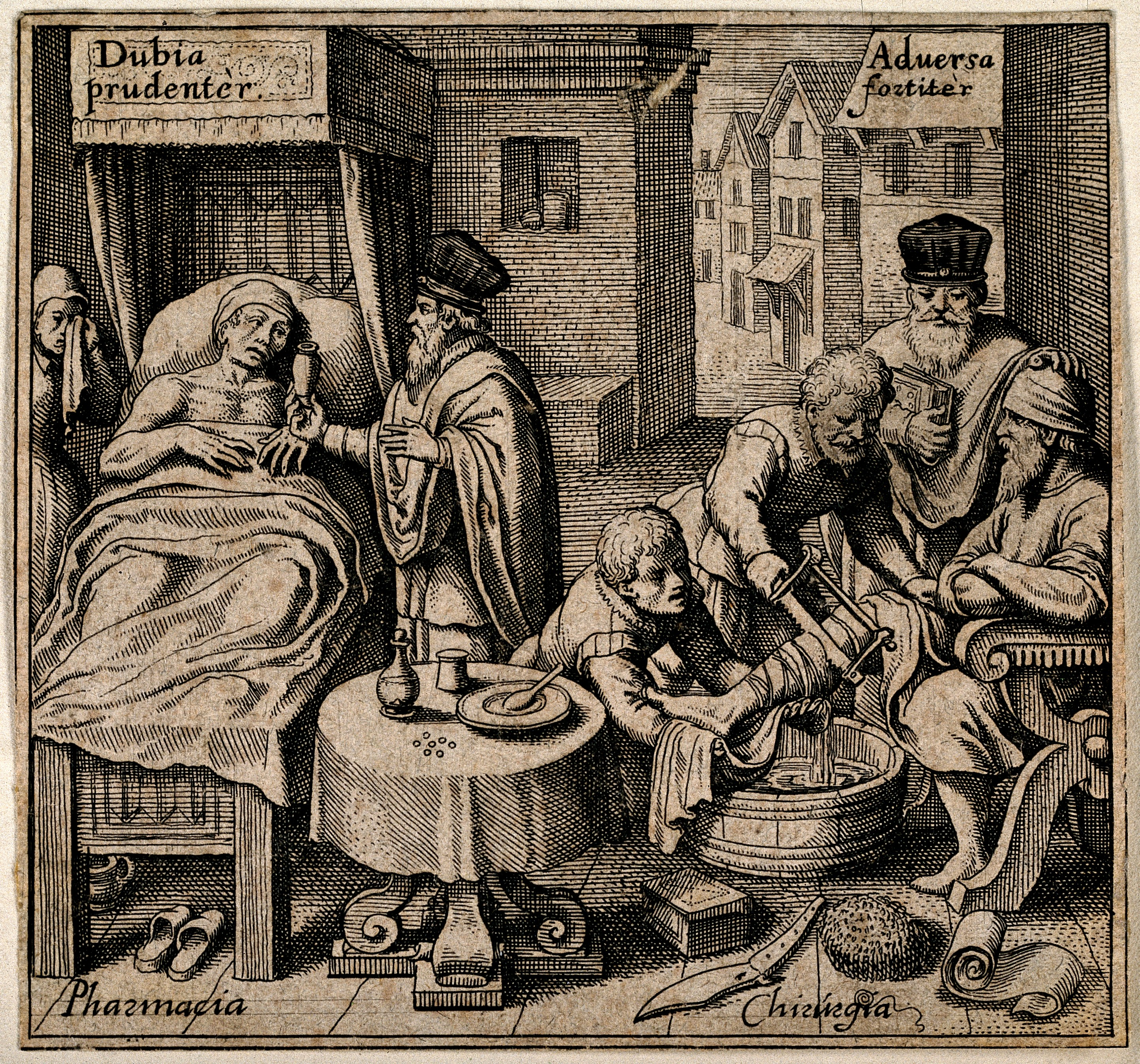 A physician giving a medicine to a sick man in bed, and a surgeon, supervised by a physician, amputating the leg of seated patient, representing pharmacy and surgery respectively. Engraving, 1646. Iconographic Collections